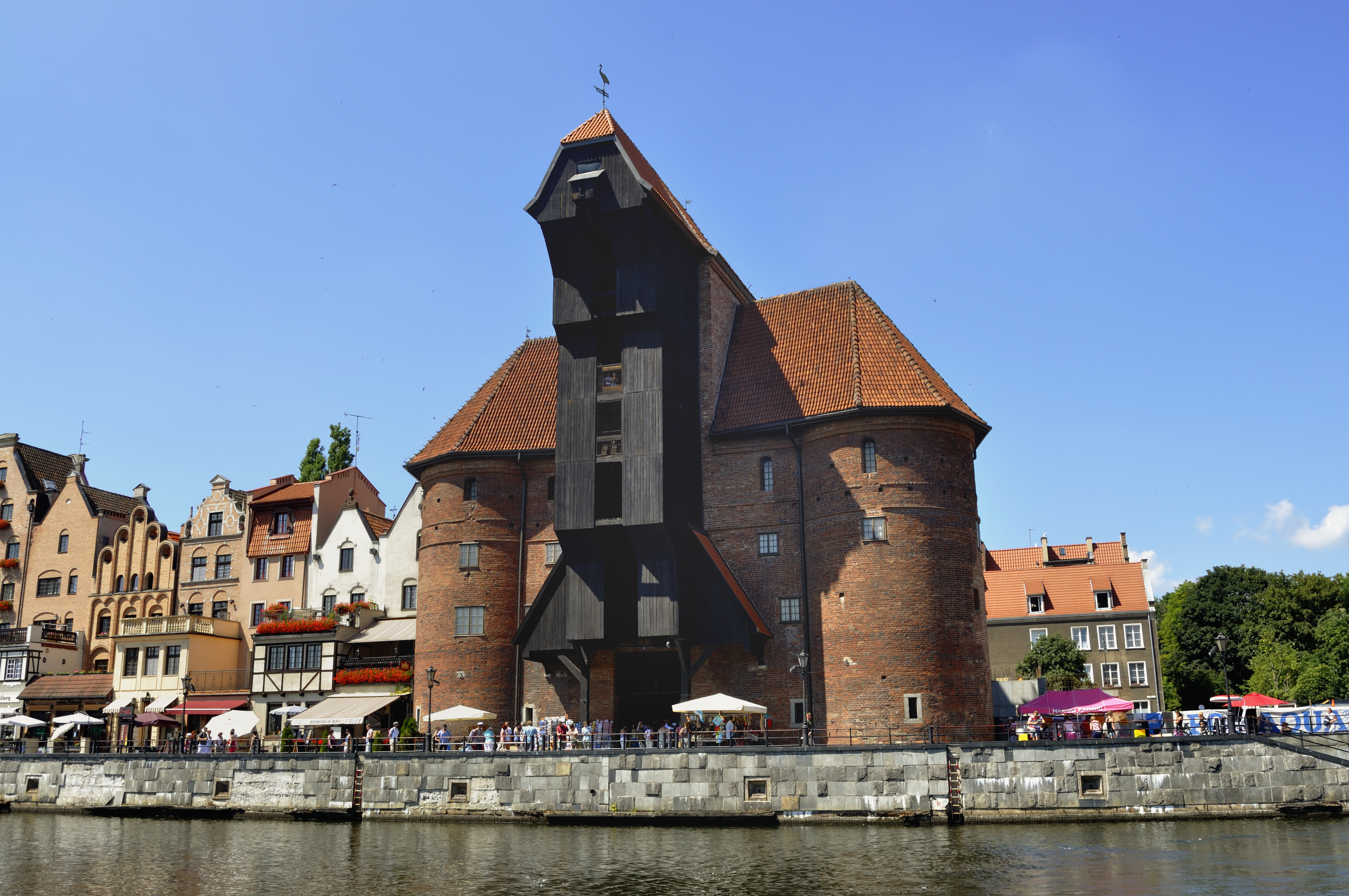 Picture taken in Gdańsk after Wikimania 2010 conference. Żuraw.